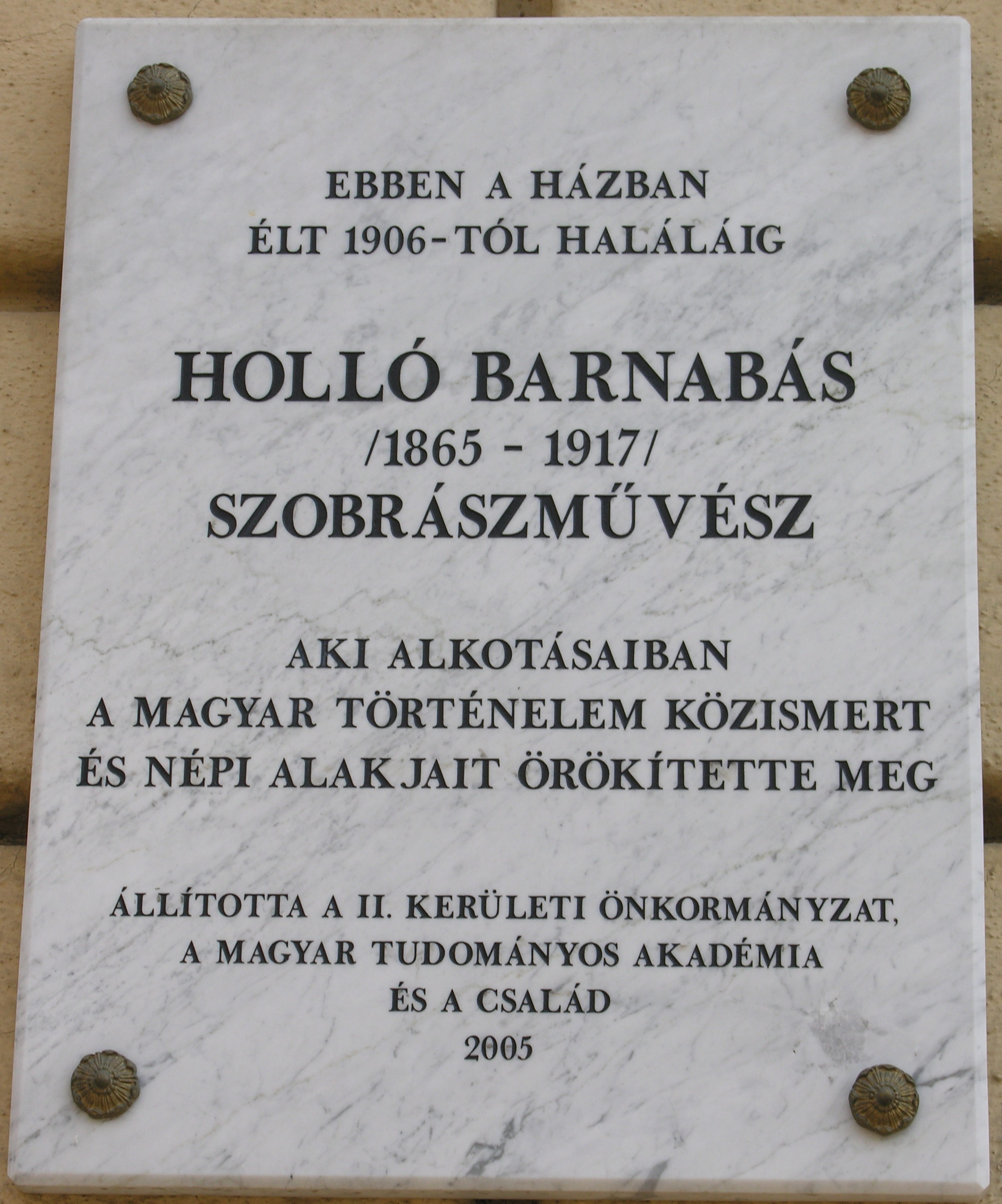 Commemorative plaque of Barnabás Holló in Budapest District II, Frankel Leó Street No 21-23 (23)